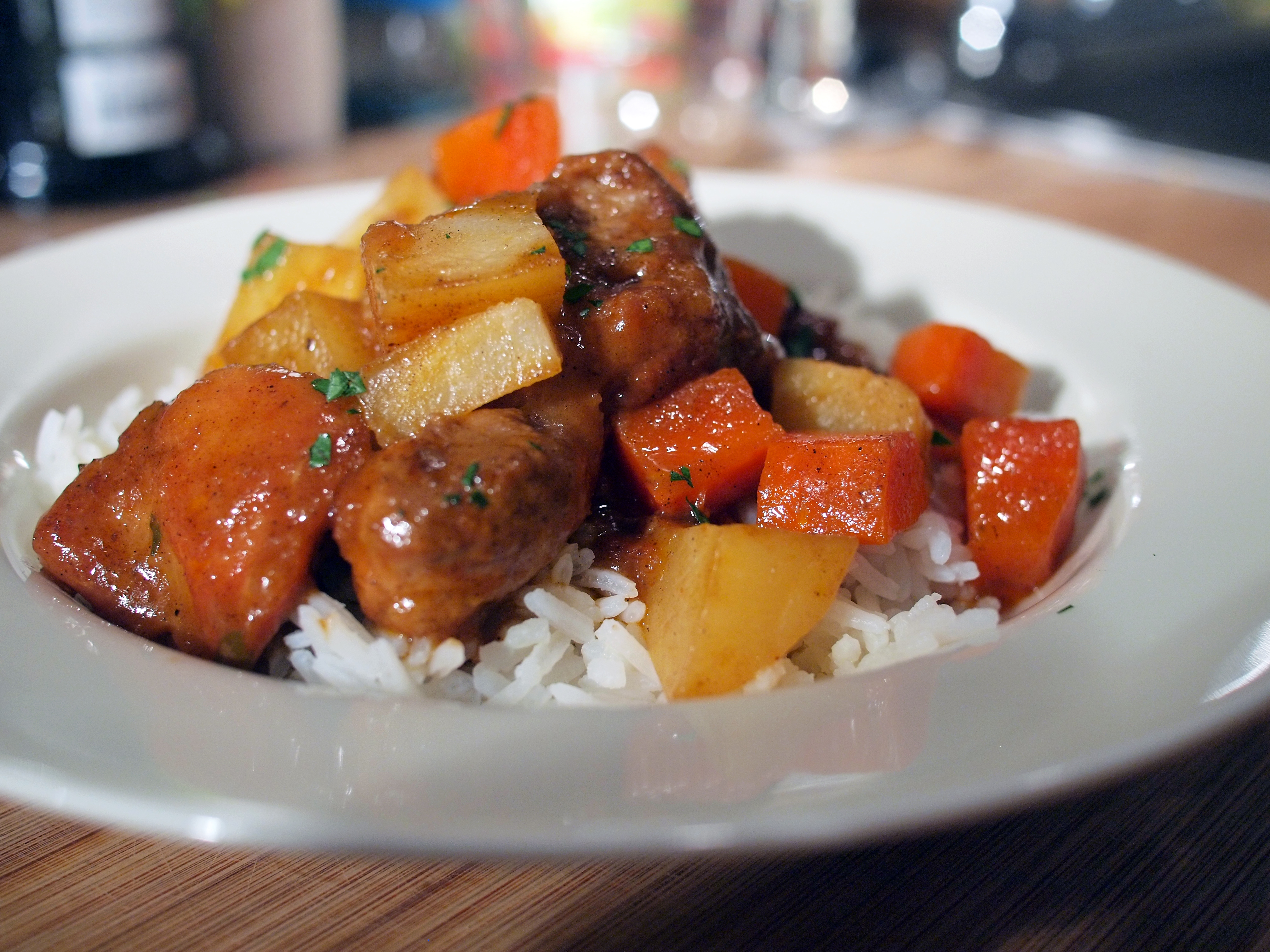 Pork Stew made with Pork, Carrot, and Potato and served over rice.